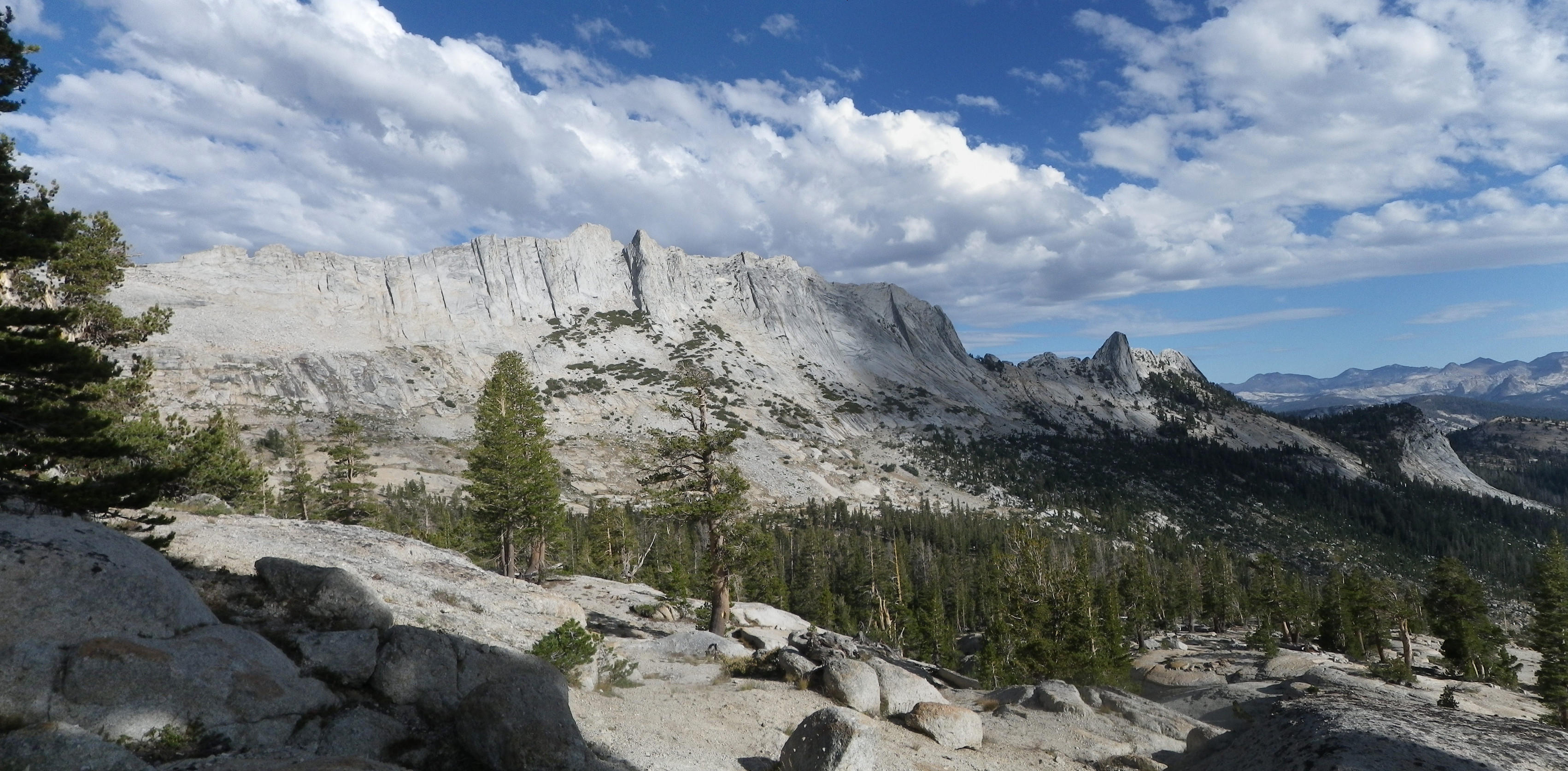 This is a photo of Matthes crest in the Yosemite backcountry. The photo is taken from the west side of the crest.